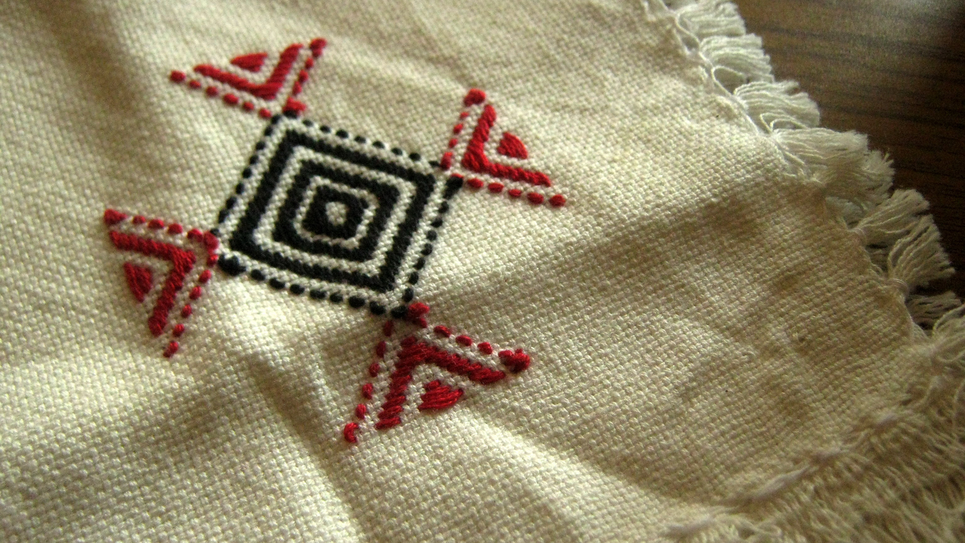 Embroidery work from Kotha Primitive Tribal Communities(PTGs) in Nilgiri, Tamil Nadu